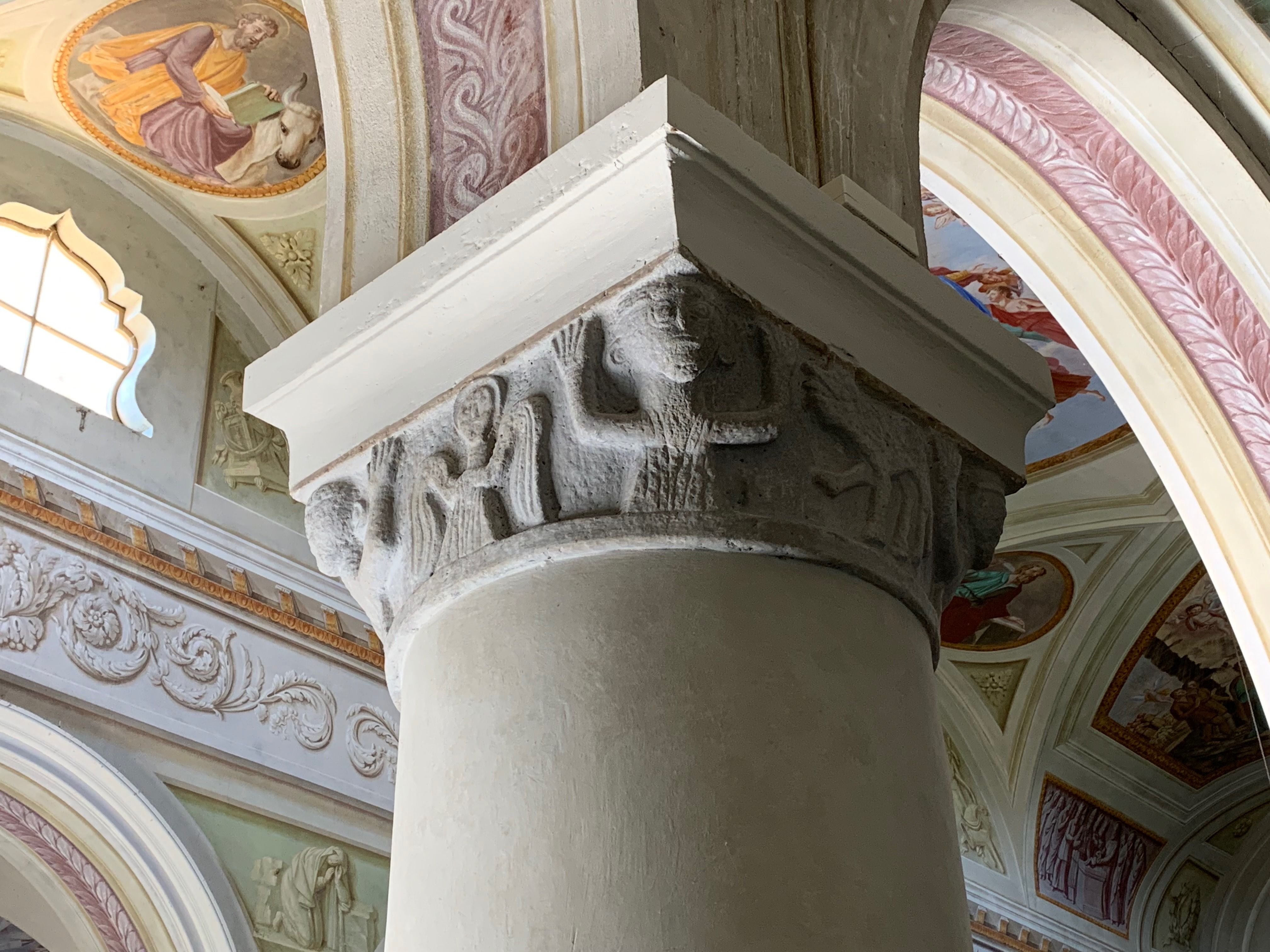 Pieve di Santa Maria Novella in Chianti (Radda in Chianti)